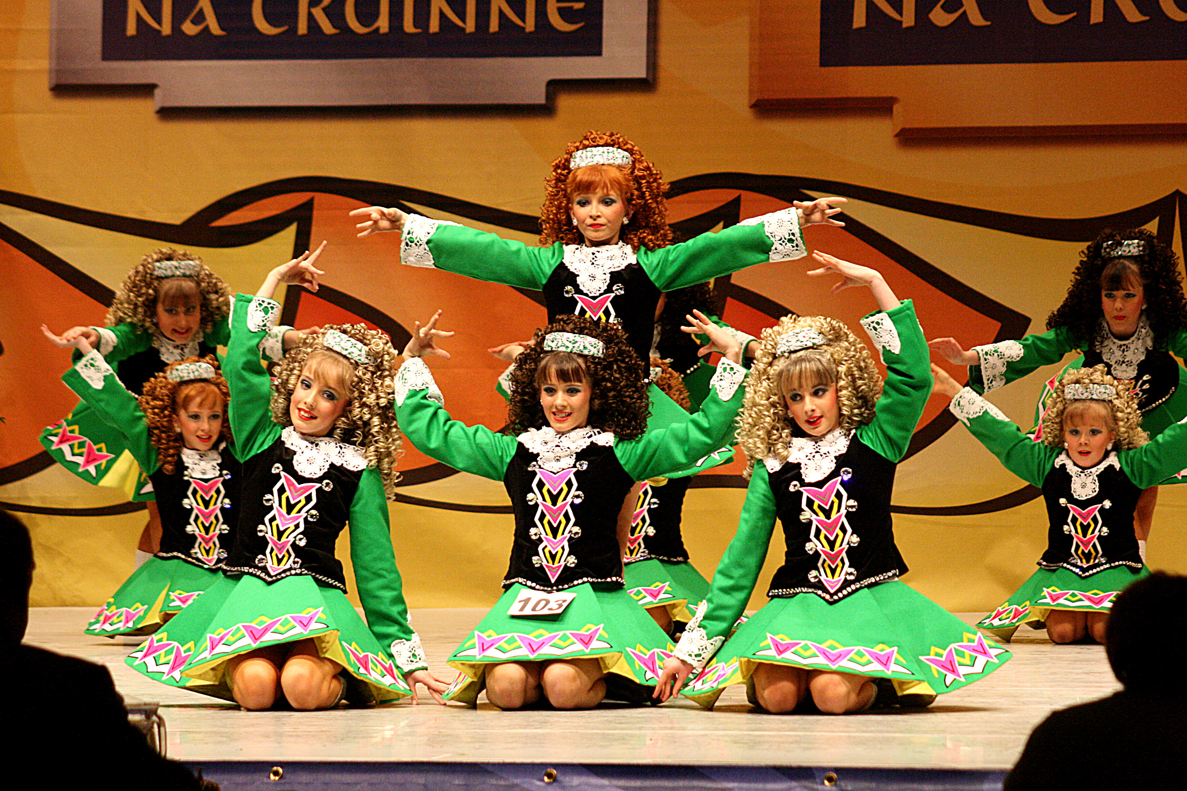 A team competes in the Girls Figure Dancing section at the 2010 World Irish Dancing Championships (Oireachtas Rince na Cruinne) held in Glasgow, Scotland